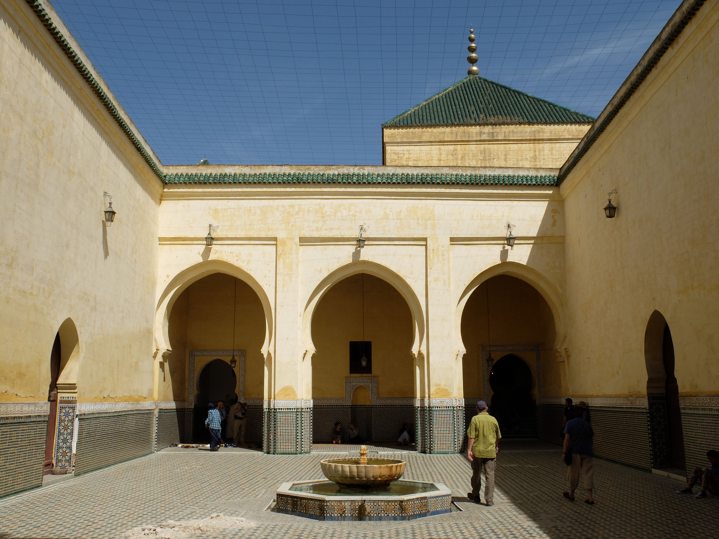 Main courtyard of Mausoleum of Moulay Ismail, looking east towards the mausoleum (mausoleum cupola visible in upper right)